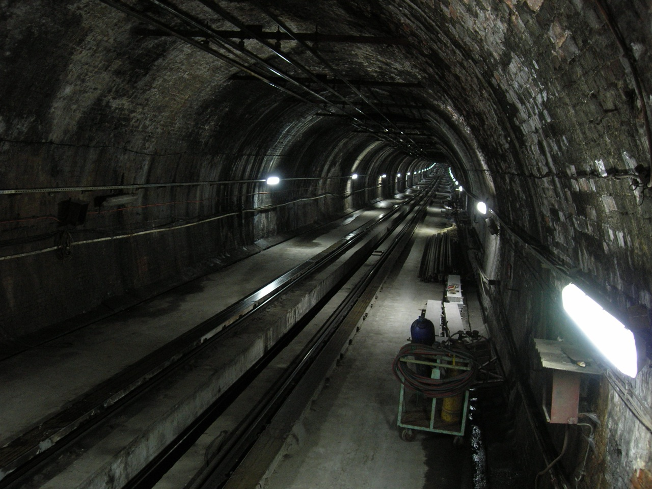 Tunnel of the Istanbul funicular "Tünel"